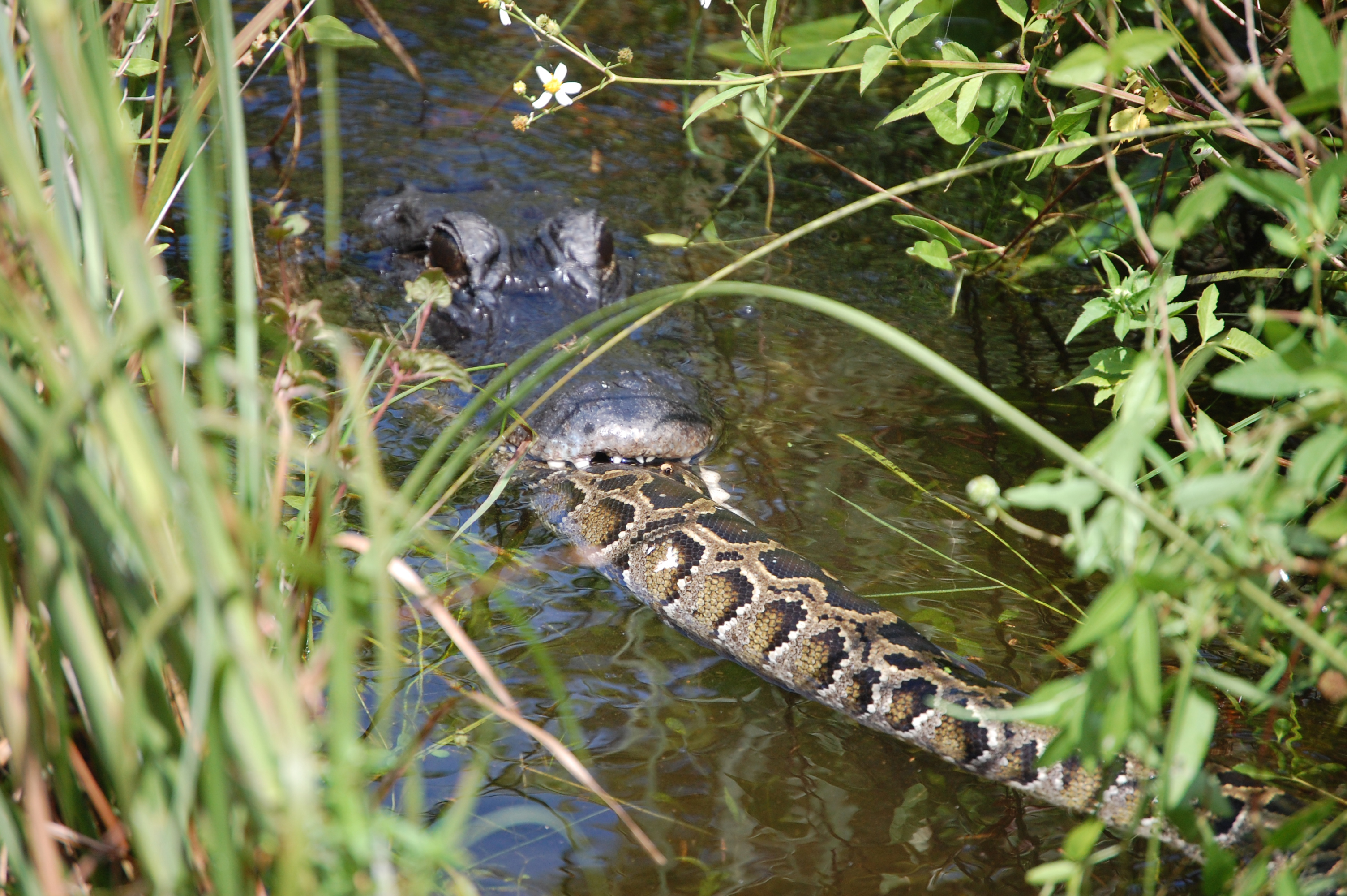 Alligator eats Burmese Python, NPSphotos.jpg